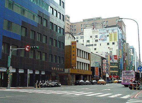 228 Incident starting point: Typhone Building and Taipei Branch, Chang Hwa Bank. P City's C-jun shooting. Photo by C-jun.